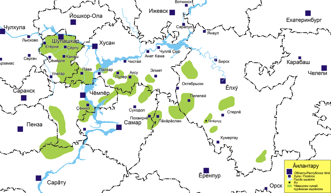 Chuvash diaspora in Volga Federal district